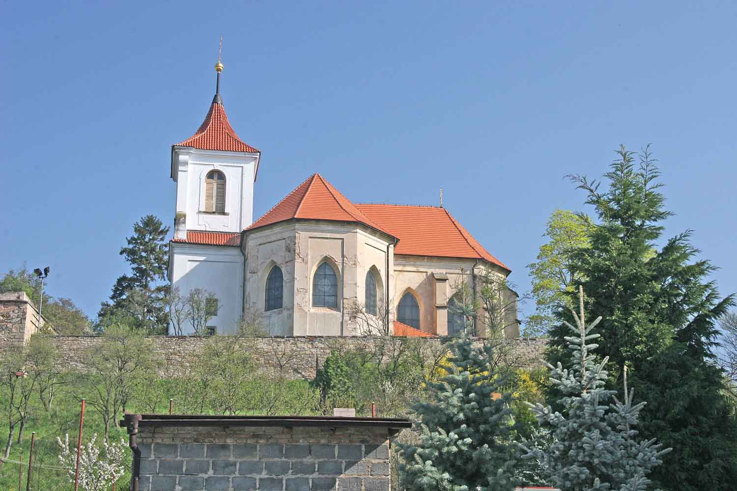 Saint Apollinaris church in Sadská, Nymburk District, Czech Republic